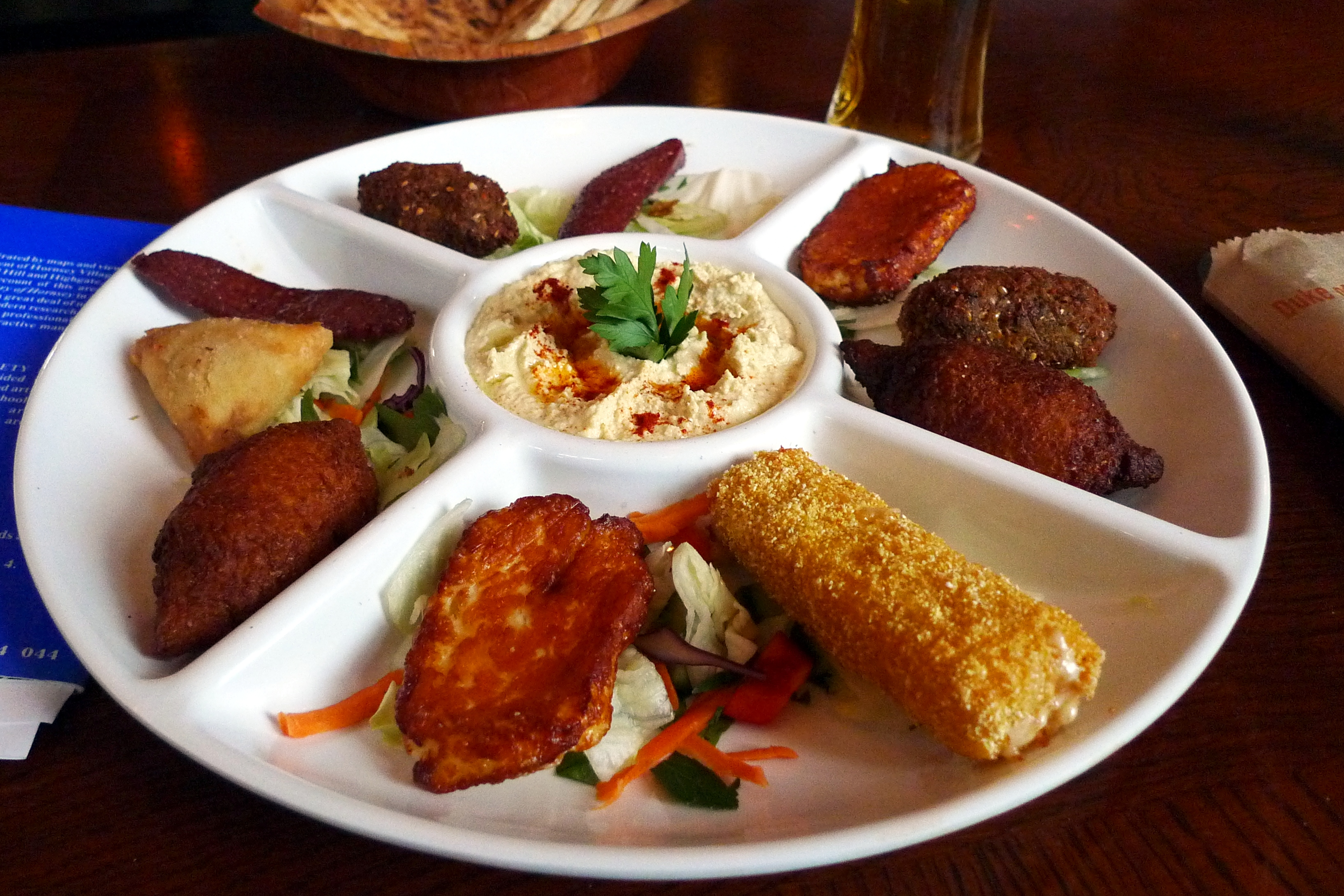 The hot meze platter at this pub. It's mostly fried stuff, but pretty decent fried stuff, with some nice flatbread and hummus. At The Duke of Edinburgh, Mayes Road.